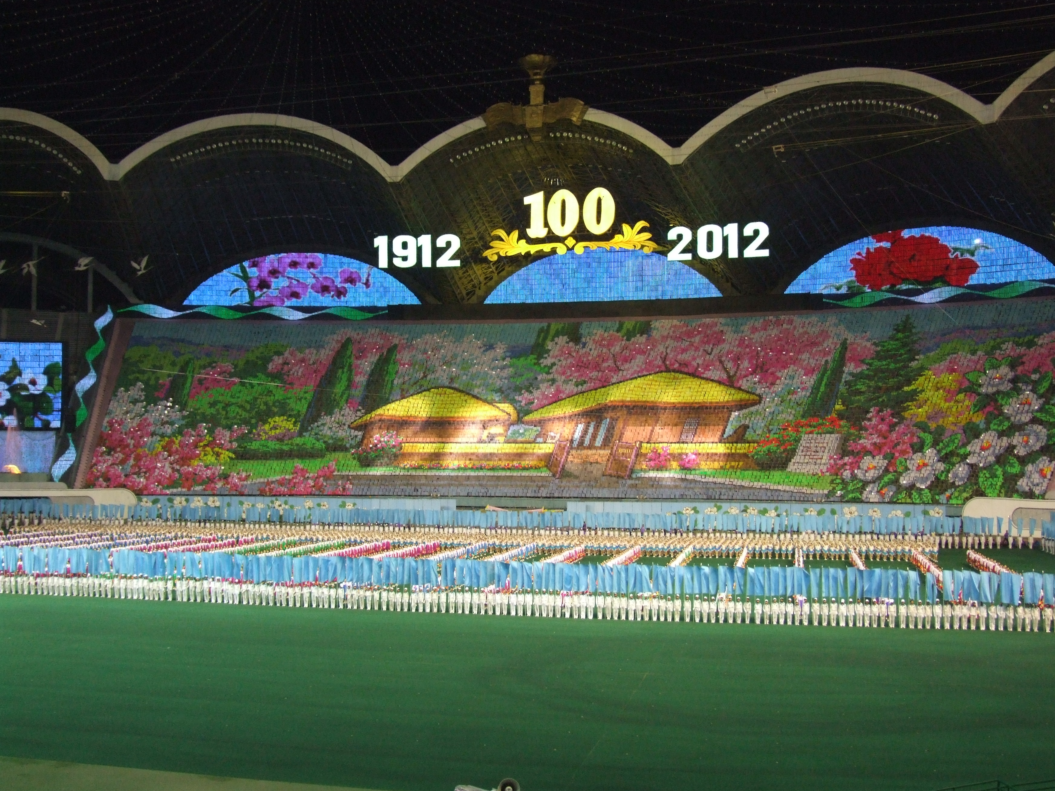 Arirang Mass Games